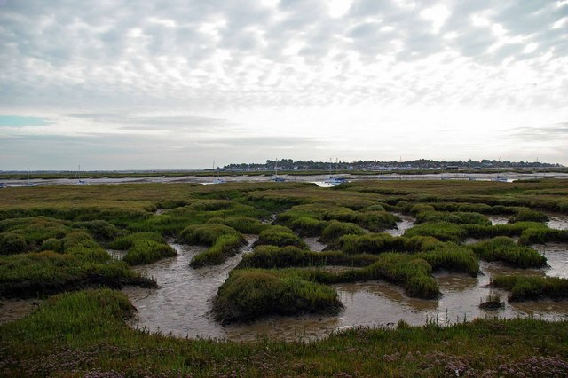 Old Hall Saltings. This is the view from Old Hall Marsh across the saltmarsh, Salcott Channel and Sunken Island towards West Mersea.